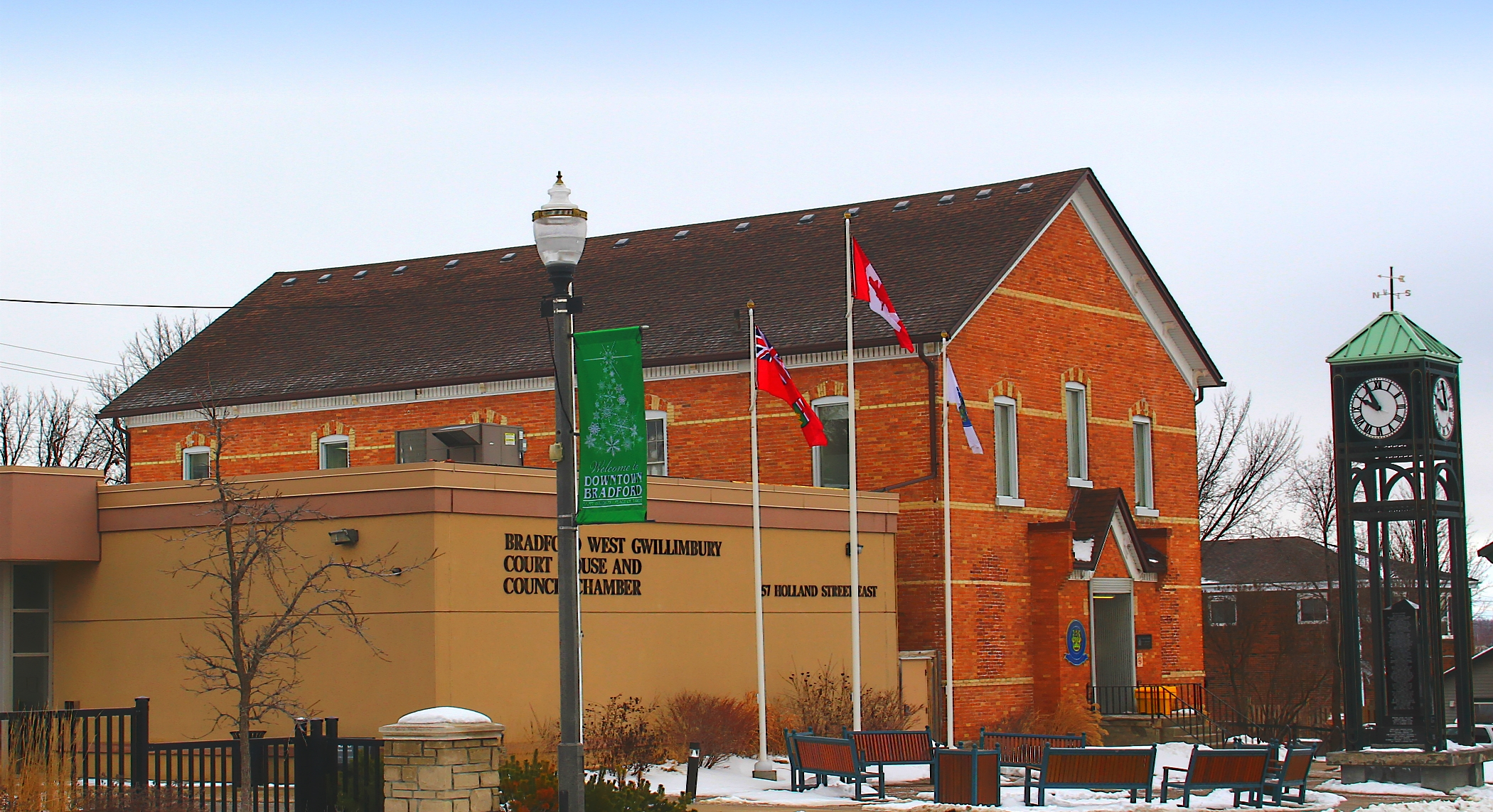 Old Town Hall and Current Court House / Council